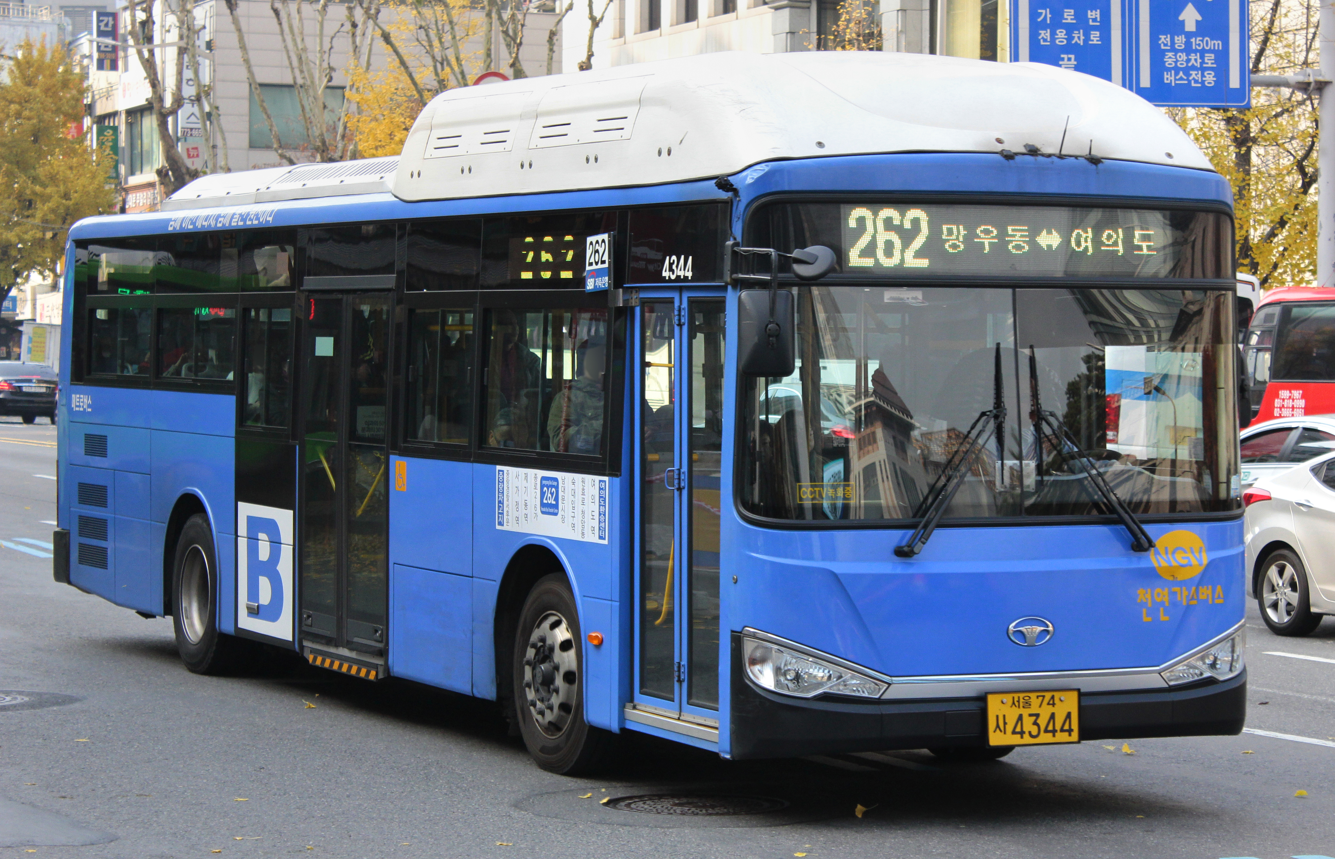 Daewoo New BS110CN Motorcoach